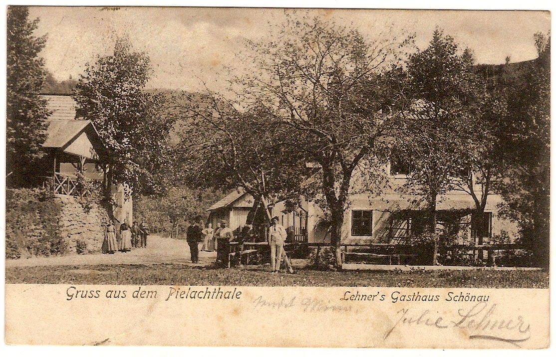 Post card Gasthaus Schönau in Weißenburggegend 17 in Frankenfels